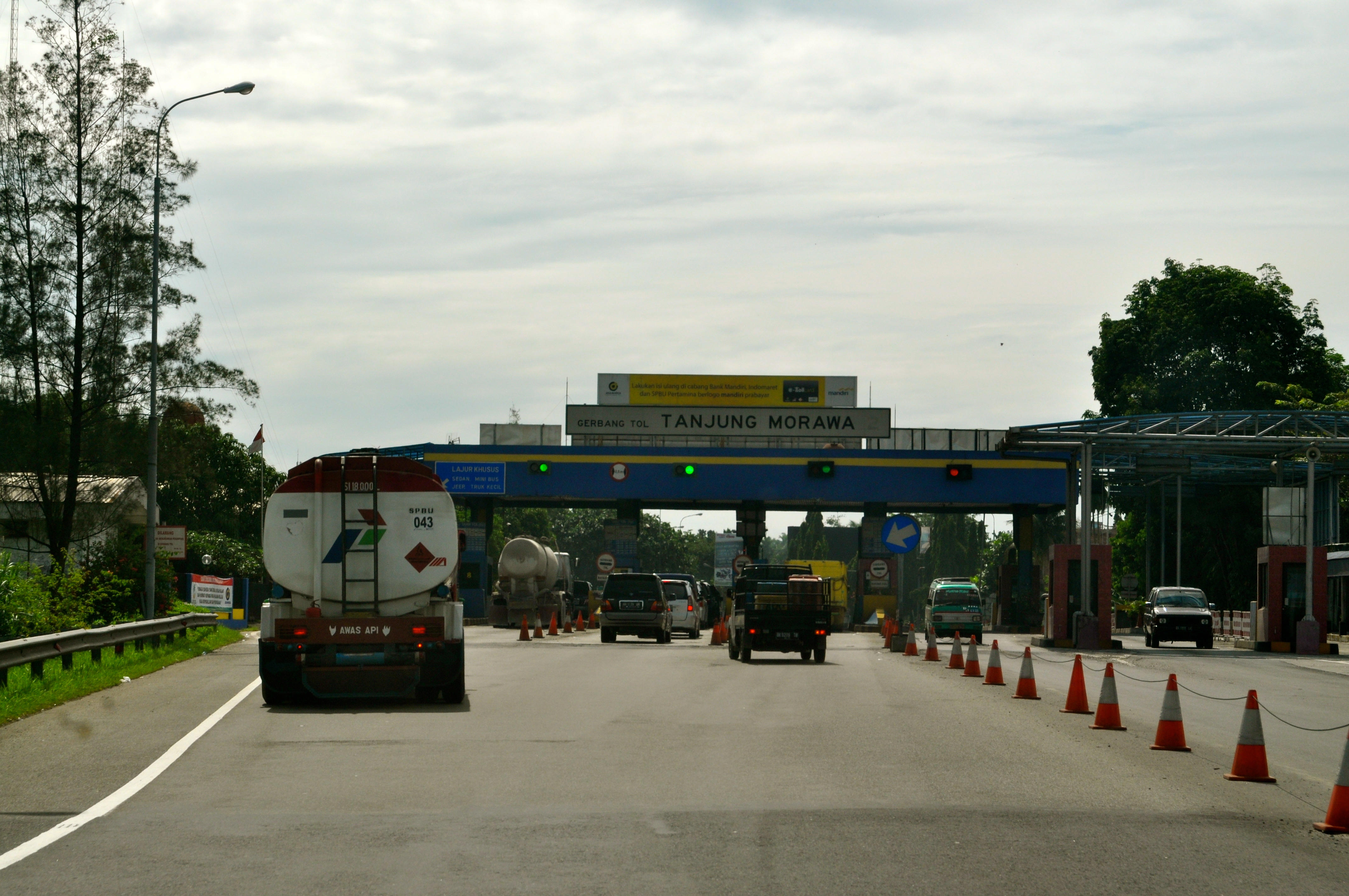 Tanjung Morawa Toll Plaza in Belmera Toll Road, Medan Indonesia